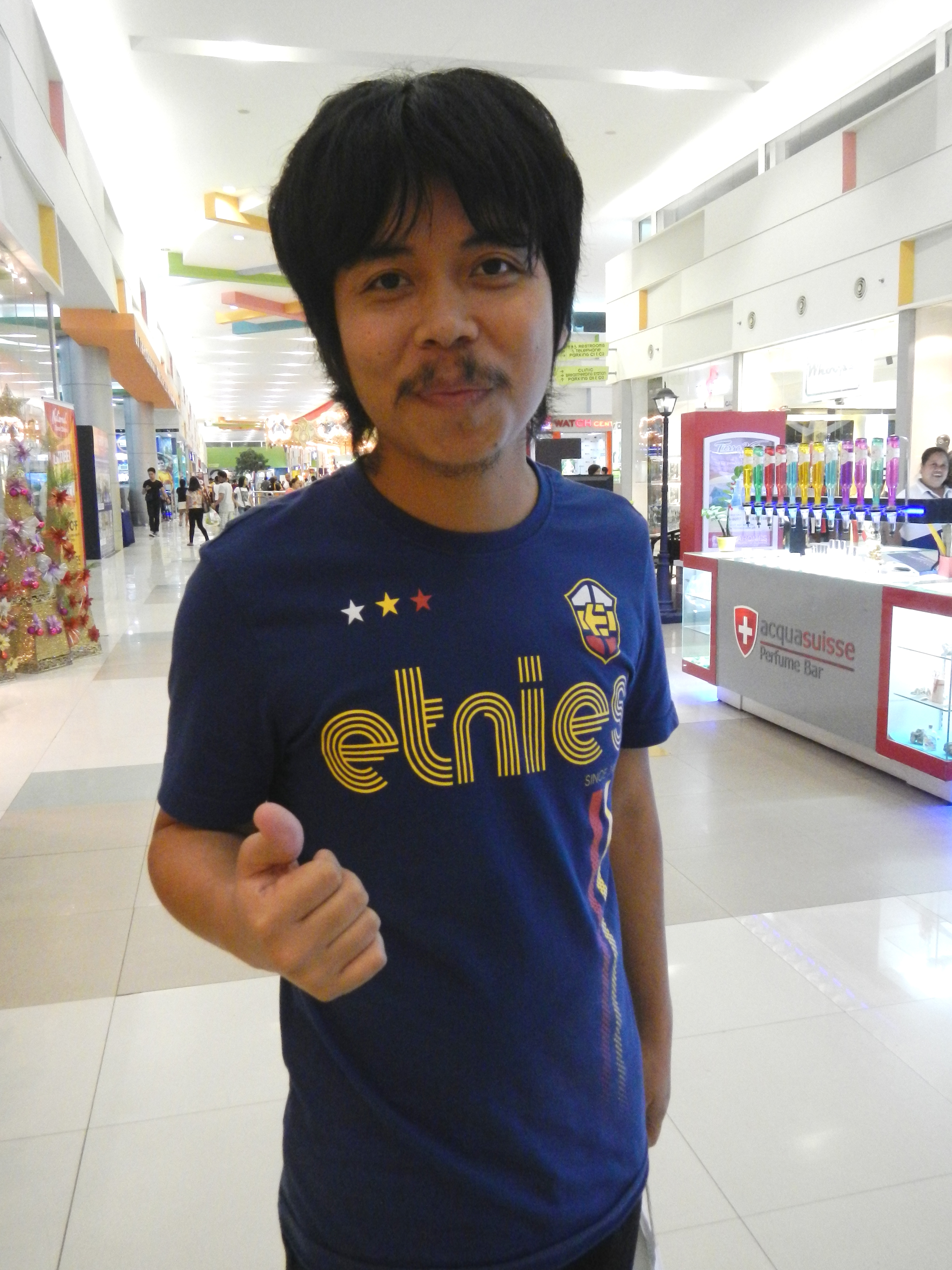 Empoy Marquez Julius "Empoy" Marquez ay isang artista at komediyante mula sa Baliuag, Bulacan, Lokomoko As Lokomoko High Empoy Marquez - Kapitan Awesome Empoy Marquez as Kapitan Awesome May 5,2013-present as Season 2 – 2013 Tropa Mo Ko Unli No. of episodes 28 (as of March 22, 2014) Tropang Trumpo - at SM City Baliwag Bulacan.